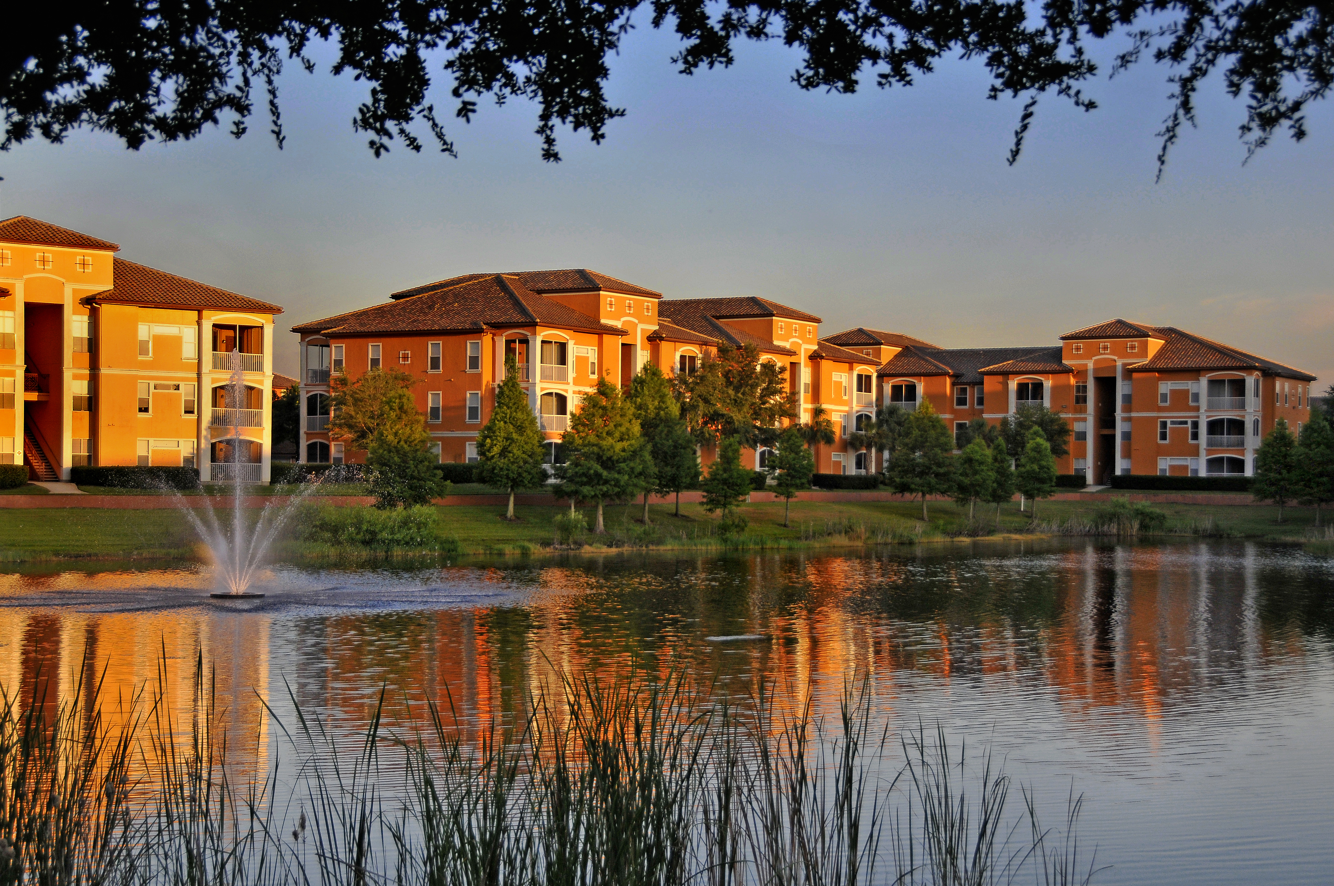 La Palazza is an apartment complex in the planned-community of MetroWest in Orlando, Florida.